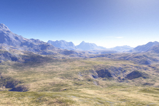 An example of a fractal landscape, generated using my own program and rendered using Terragen